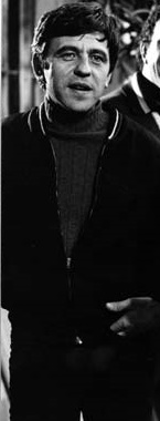 Héctor Pellegrini-actor argentino